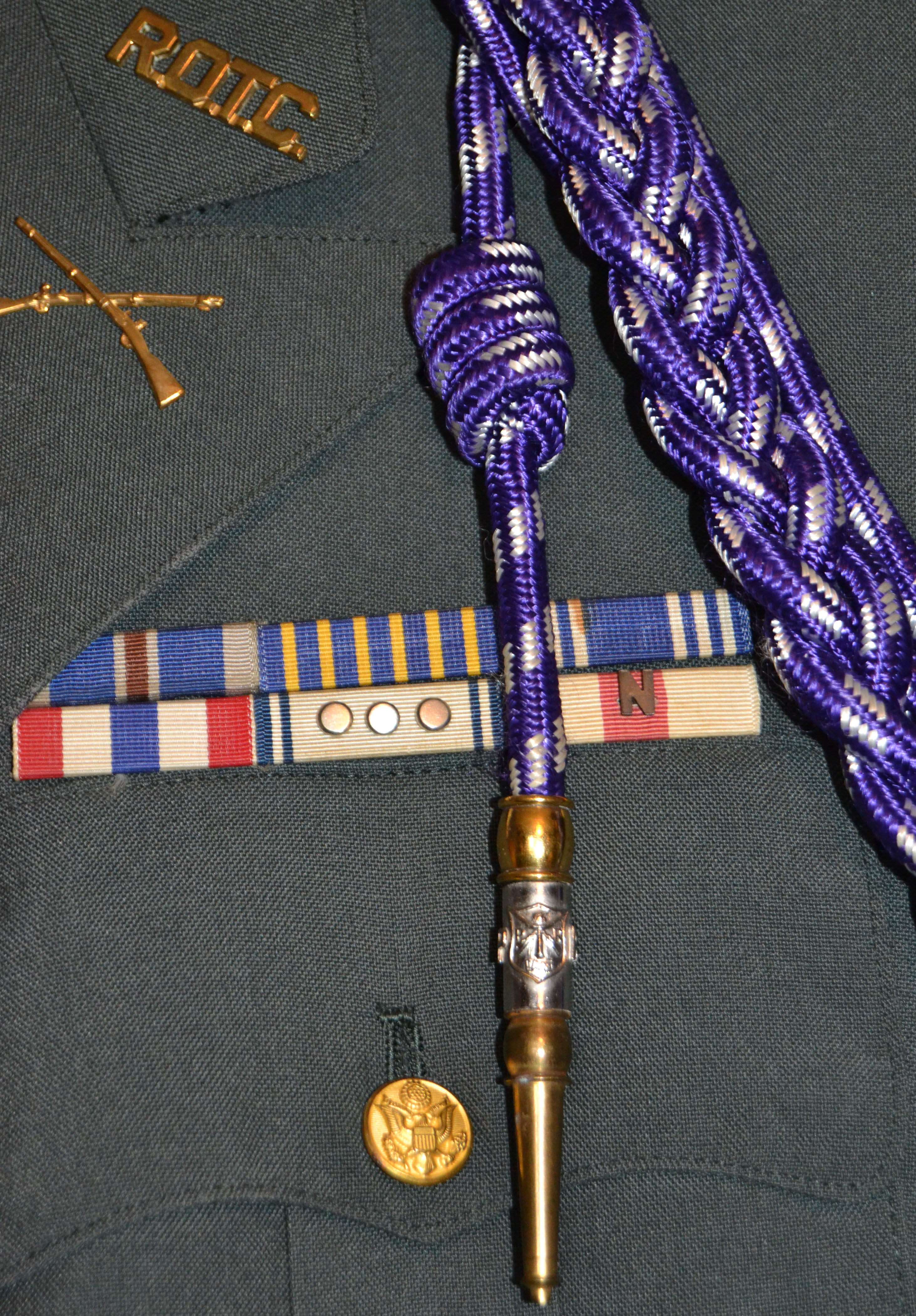 Pershing Rifles Cord and Ribbon from the late 1970s which are still worn today by Pershing Rifles Units in Reserve Officer Training Corps (ROTC) units across the US.